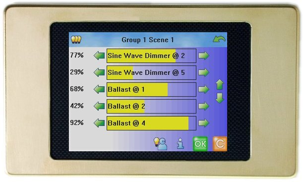 Helvar Touch Panel 924 allows very wide possibilities to control different functions of Smart Home System, for example Lighting, Audio Visual Systems, Curtain Control, ventilation and heating. Control is possible through DIGIDIM, IMAGINE or ETHERNET bus.